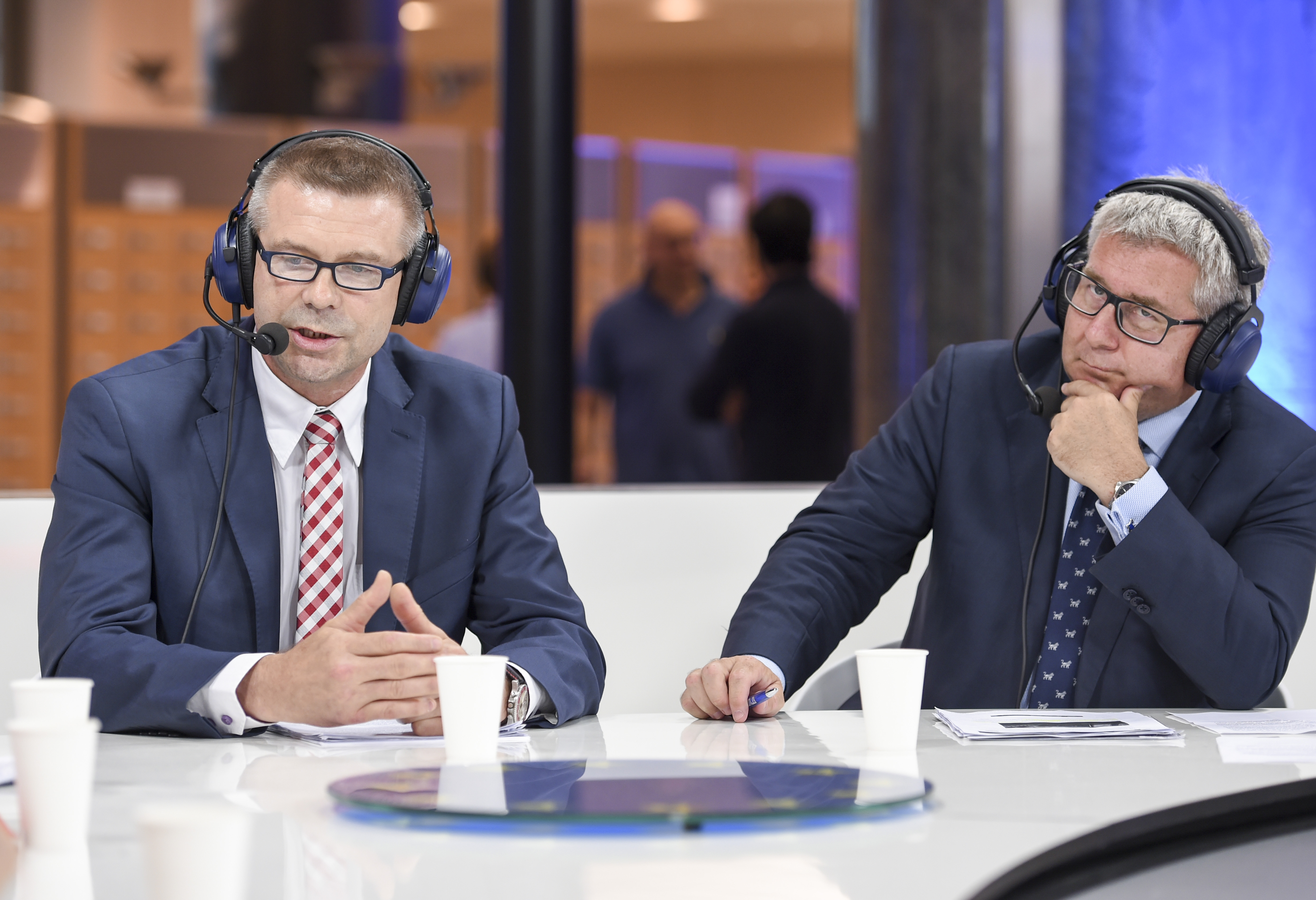 The slogan of the EU’s Year for Development 2015 #EYD2015 is an appeal to join the cause: “Our world, our dignity, our future”. To discuss this critical phase for Europe’s external policy, Euranet Plus, Europe’s largest radio network, in partnership with Polskie Radio (Poland), hosted a live debate in Brussels with development experts and members of the European Parliament. Get the guest list and all details at Part 1/2 | Polish | moderator Magdalena Skajewska | guests: - Ryszard Czarnecki, MEP, Poland, Vice-President of the European Parliament, European Conservatives and Reformists Group - Andrzej Grzyb, MEP, Poland, Group of the European People's Party (Christian Democrats) - Bogdan Brunon Wenta, MEP, Poland, Group of the European People's Party (Christian Democrats), Member DEVE Committee on Development